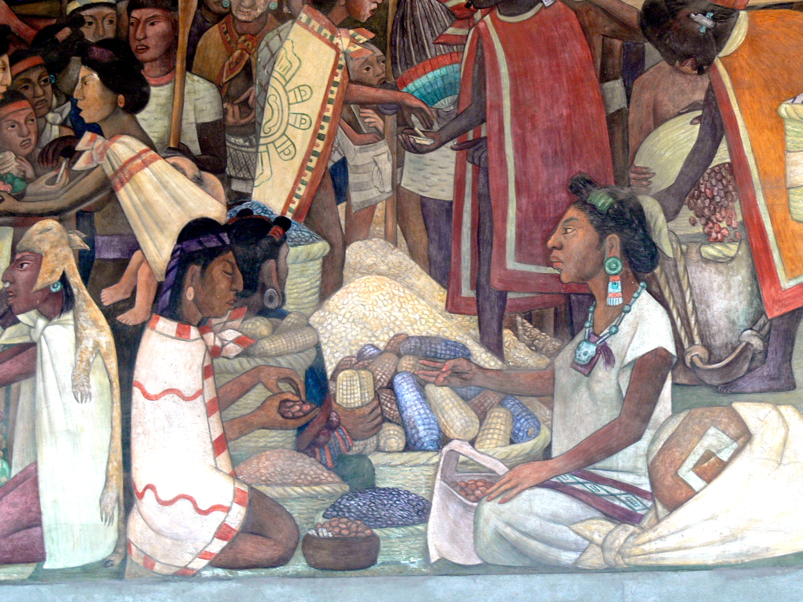 Mexico City - Palacio Nacional. Mural by Diego Rivera showing the life in Aztec times e.g. vendors on the market in Tlatelolco.